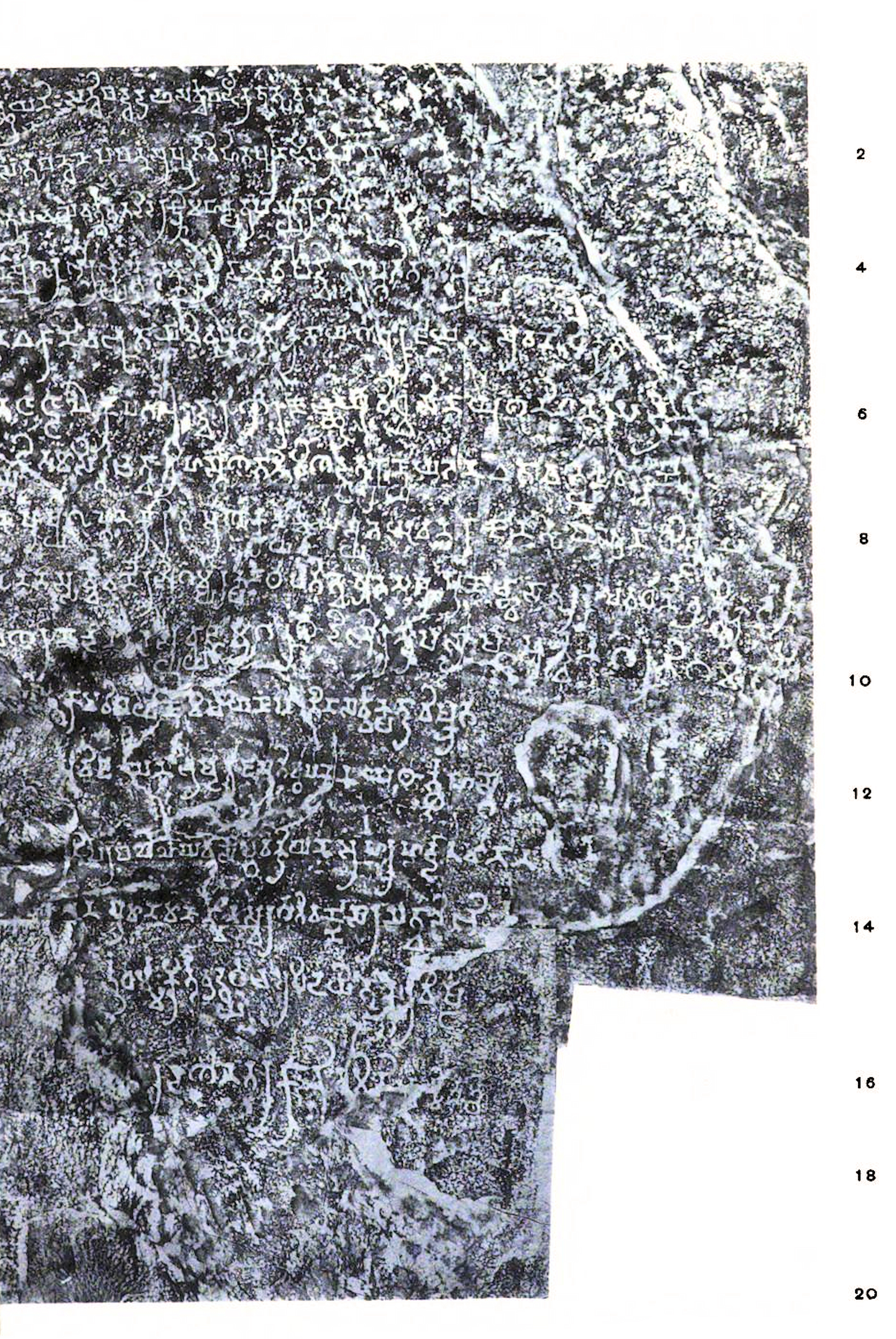 Junagadh inscription of Rudradaman (partial, RGB)